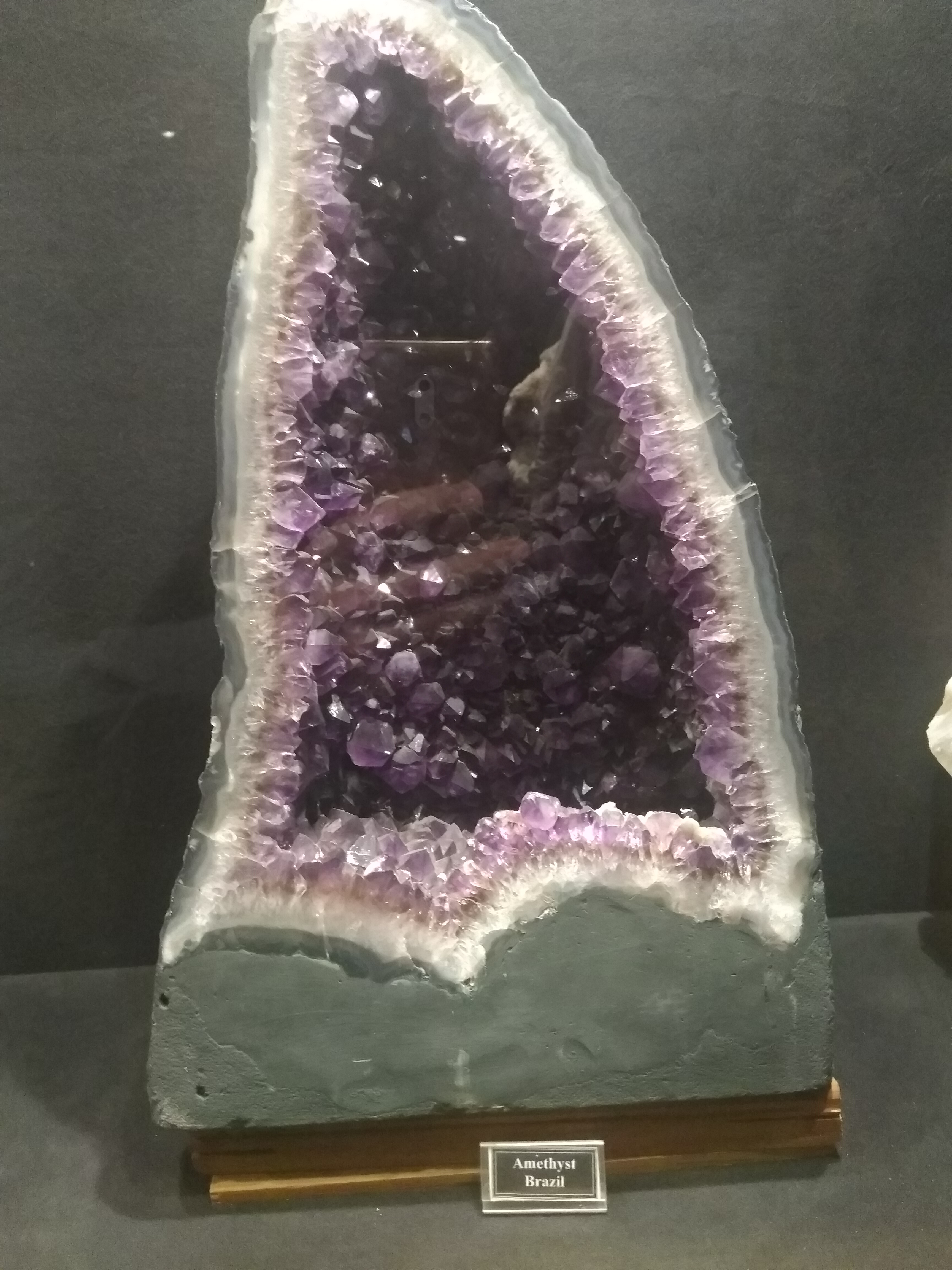 Gargoti Minerals Museum Nashik, India